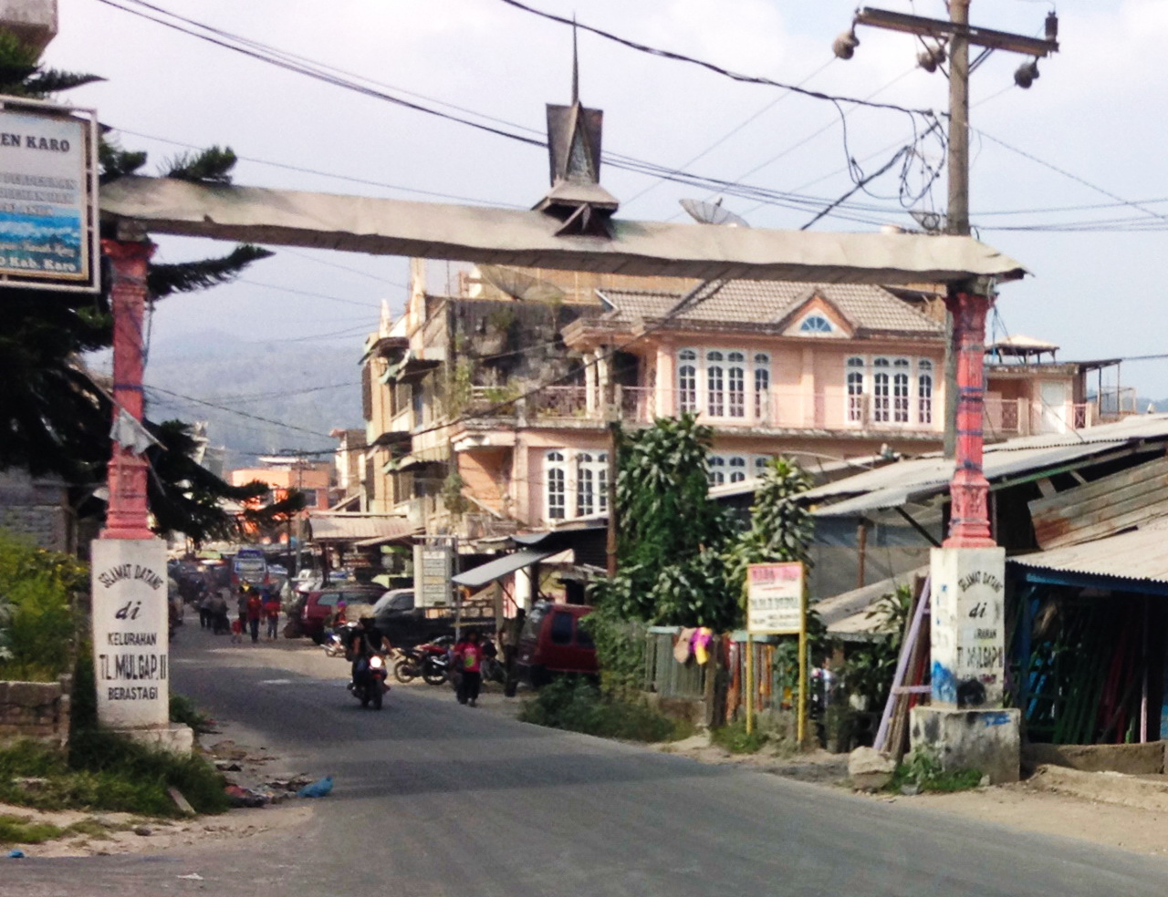 Welcome gate to Tambak Lau Mulgap II, Berastagi, Karo